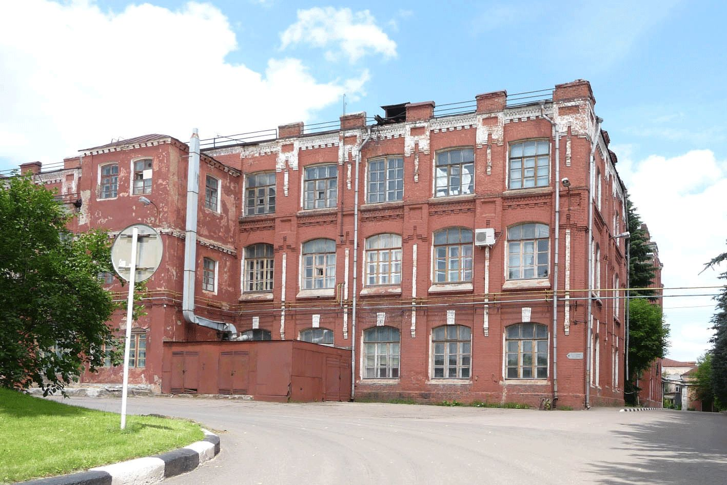 Manufactory of Anna Kaptsova in Fryazino (1900)